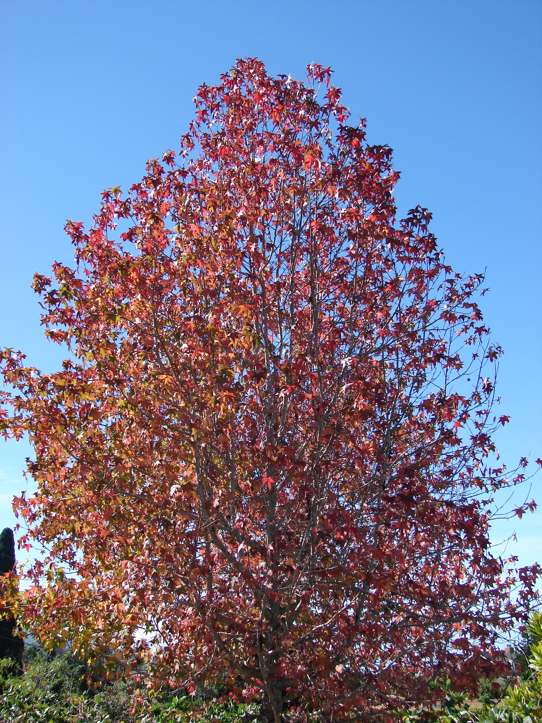 Liquidambar styraciflua (habit). Location: Maui, Upper Kimo Rd Kula